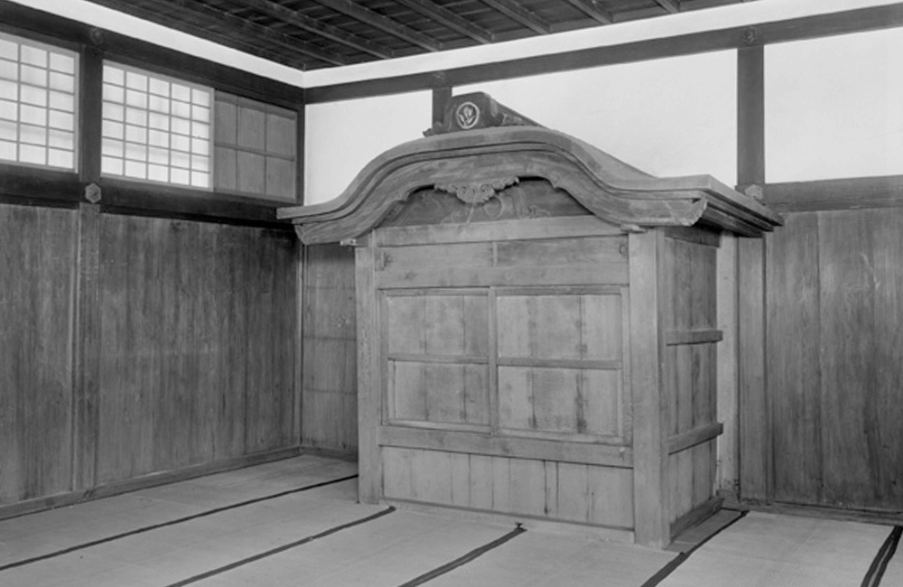 The Yudono Shoin was the bathing room in the Honmaru Palace, Nagoya Castle.